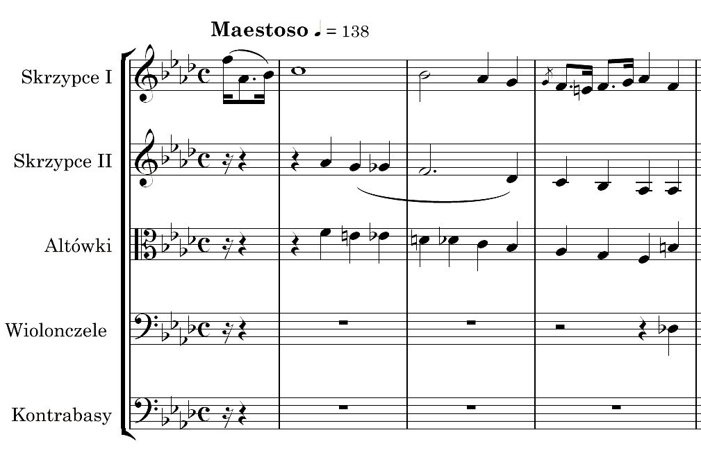 The Piano Concerto in F minor, Op. 21 - string quintet (F. Chopin)